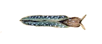 Elysia chlorotica